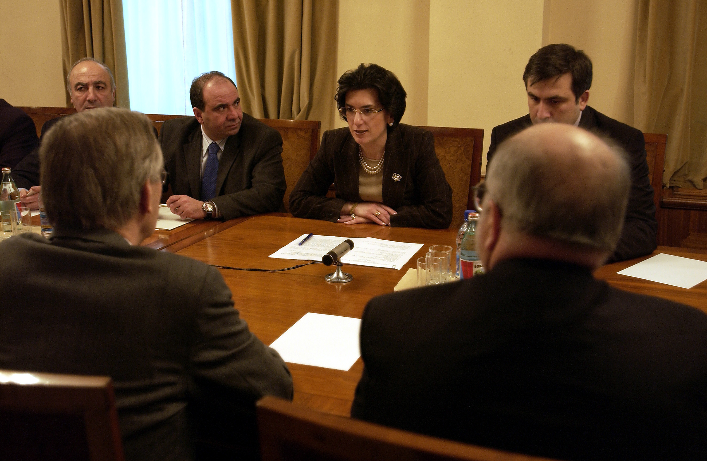 Georgia's Acting President Nino Burjanadze (center) and Secretary of Defense Donald H. Rumsfeld (left foreground) meet in Tbilisi, Georgia, on Dec. 5, 2003. Rumsfeld is in Georgia to meet with Burjanadze, Minister of Defense Gen. David Tevzadze and to visit with U.S. troops deployed there.